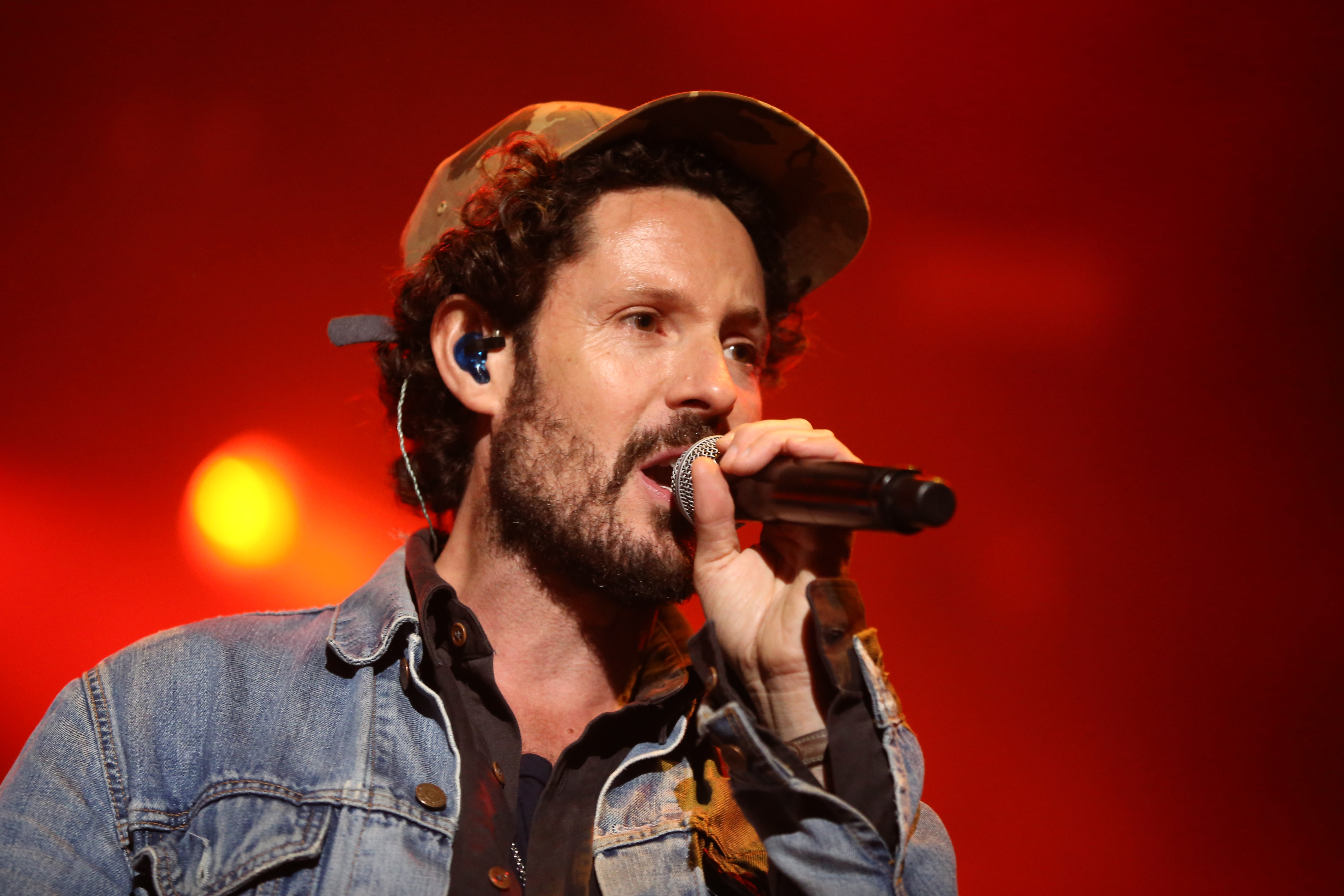 Max Herre with Afrob at Chiemsee Reggae Summer Festival 2013